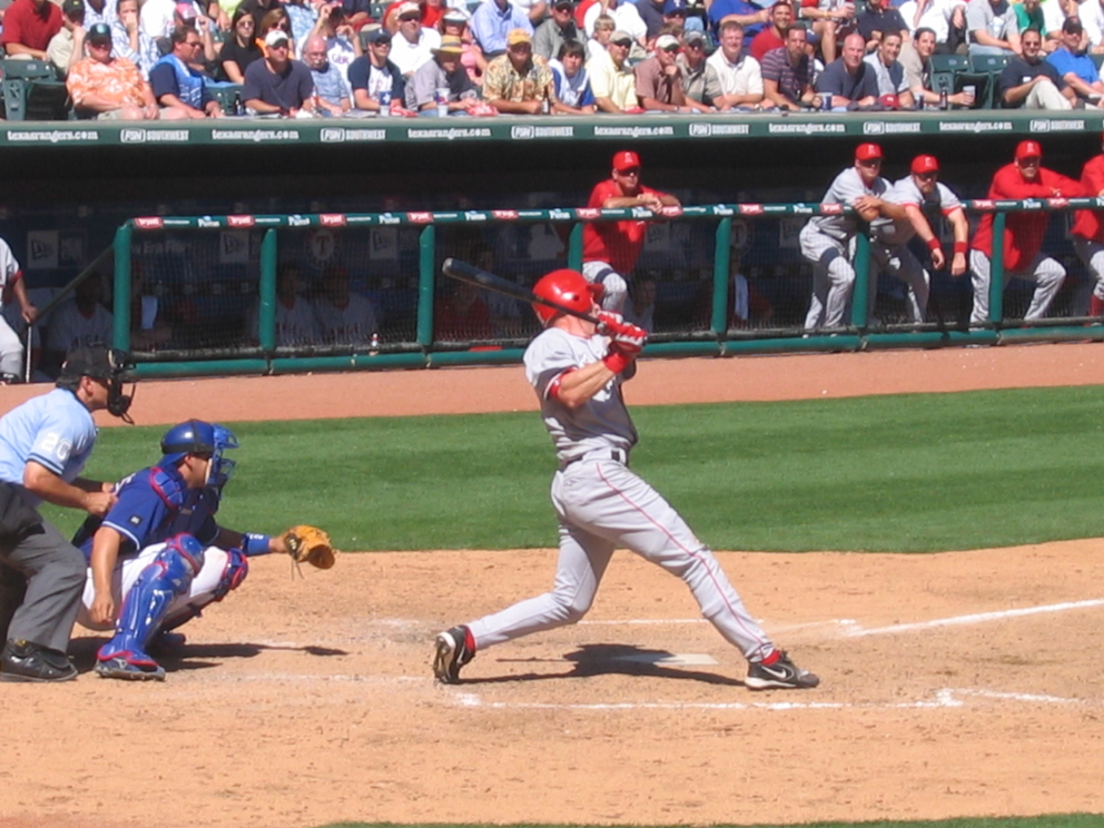 Taken at Ameriquest Field on opening day (4-11-2005).